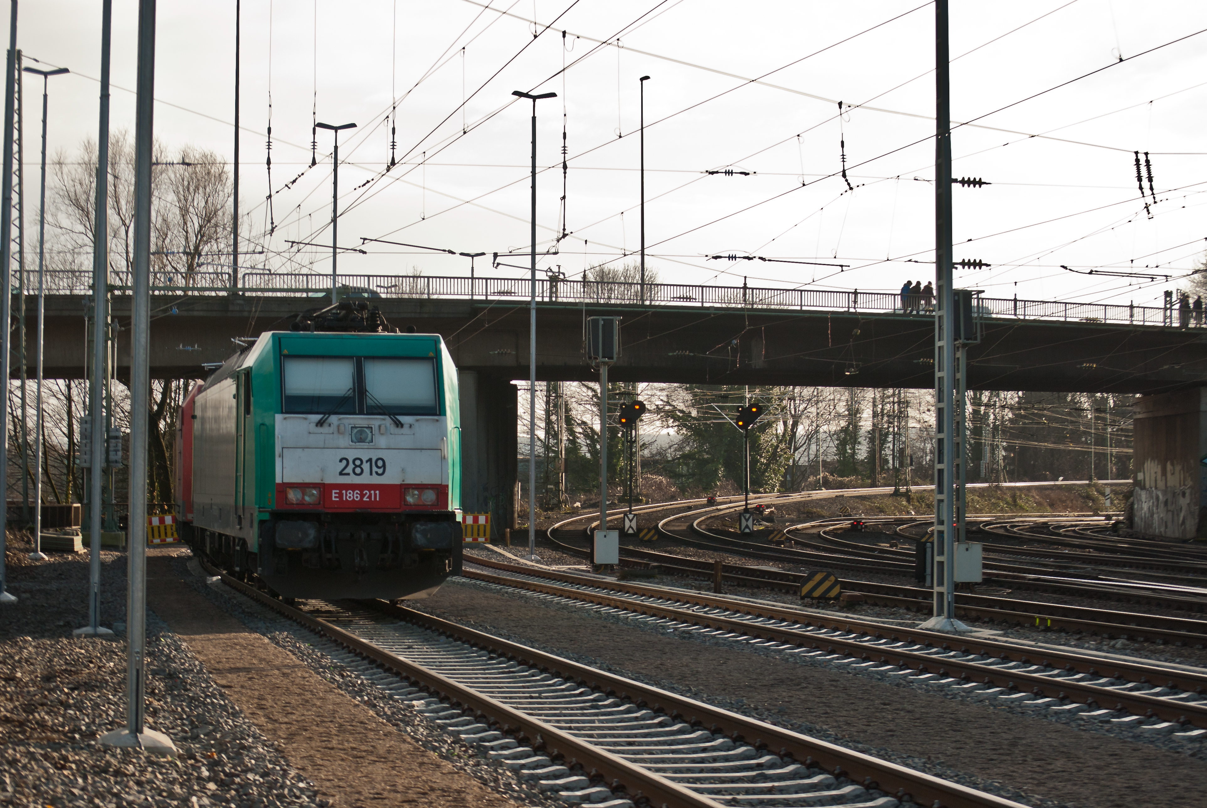 Anfang der Montzenroute am südlichen Bahnhofkopf Aachen West. In etwa auf Höhe der Brücke des Aachener Alleeringes über die Bahnanlagen beginnt der Anstieg zum Gemmenicher Tunnel. Die Gleise rechts von den ansteigenden Gleisen führen zum Aachener Hauptbahnhof.